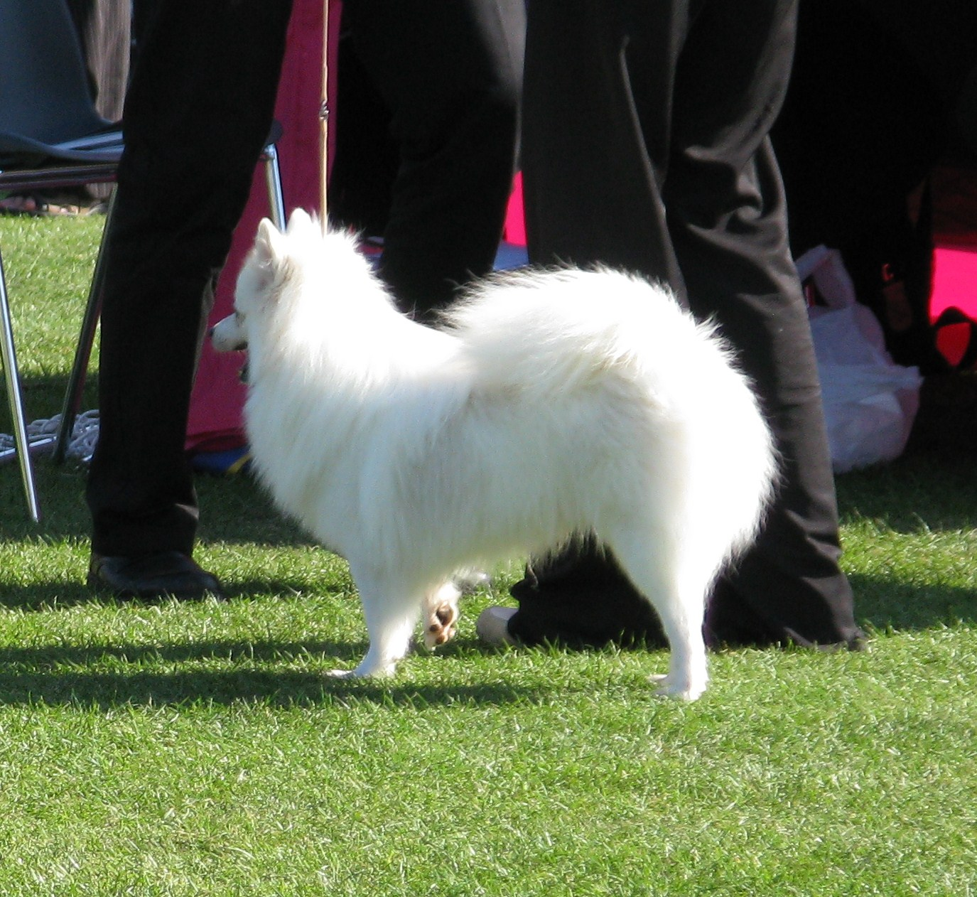 Volpino Italiano owned by Kennel Hedehuset - Denmark